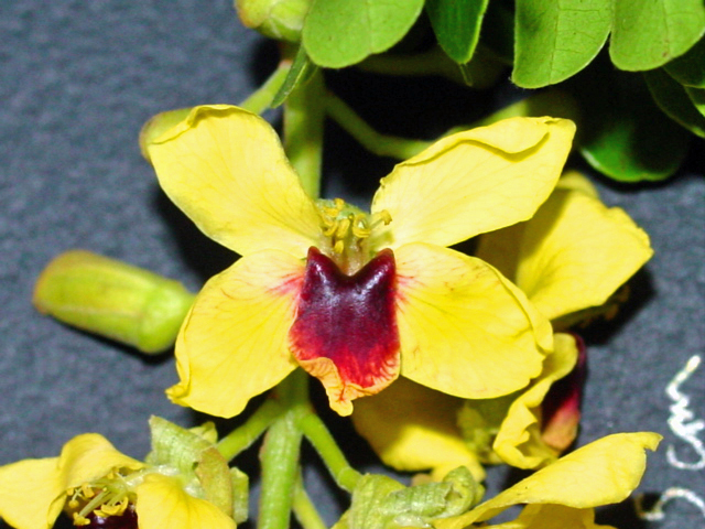 A close-up photo of a Brazilwood flower. Photo by M. A. P. Accardo Filho.